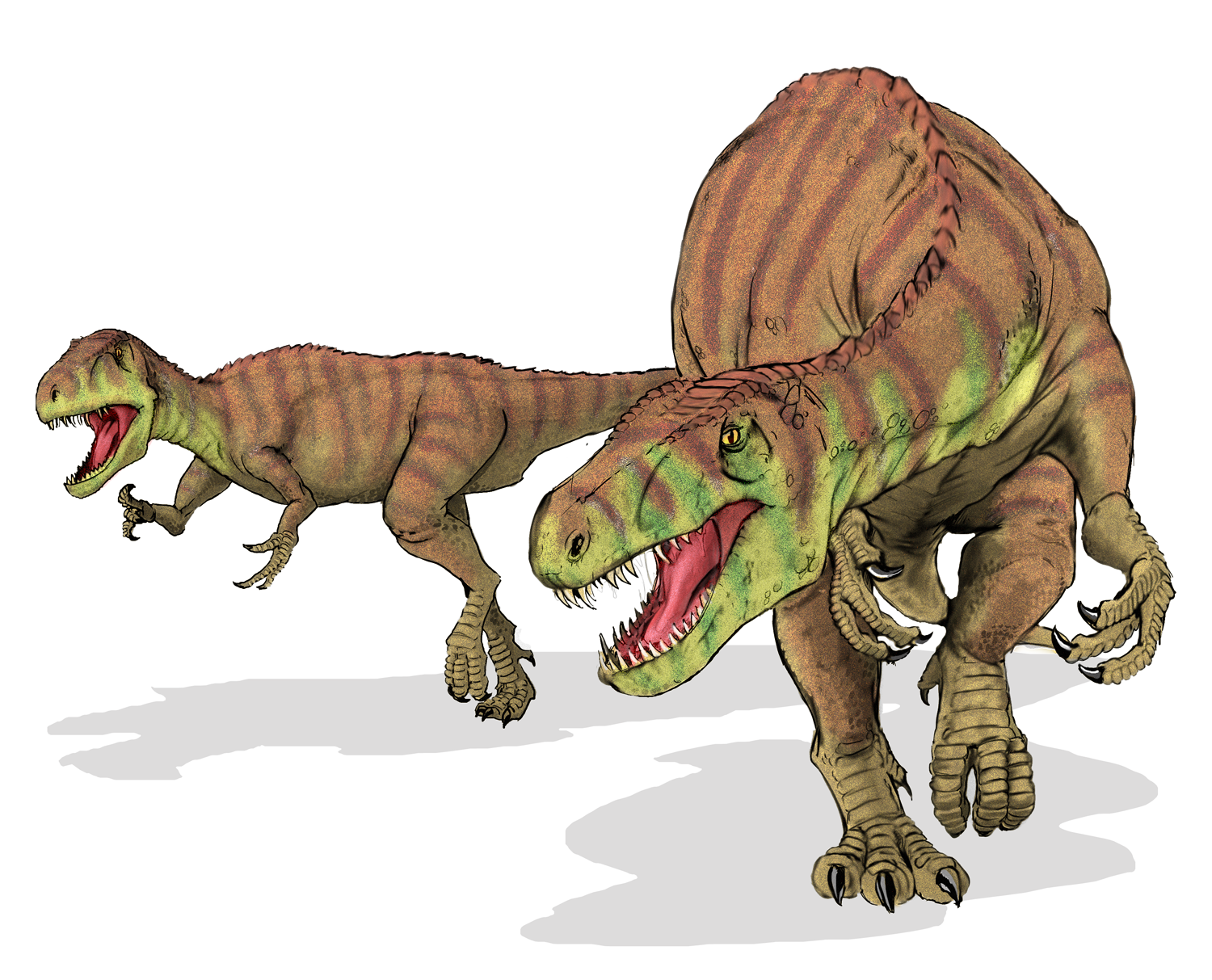 Reconstruction of a Afrovenator abakensis. It was a bipedal predator, with a mouthful of sharp teeth and three claws on each hand. Judging from the one skeleton known, this dinosaur was approximately 30 feet (9 meters) long from snout to tail tip.